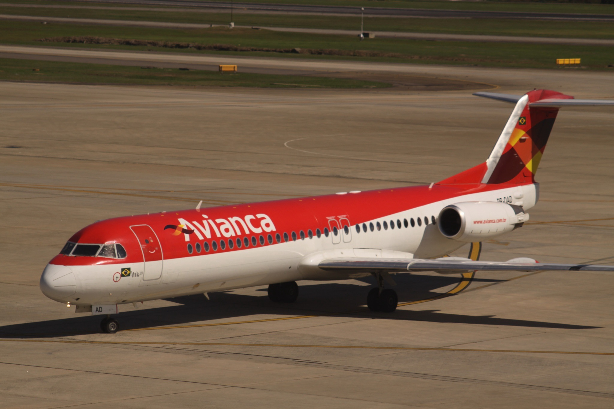 At Rio De Janeiro